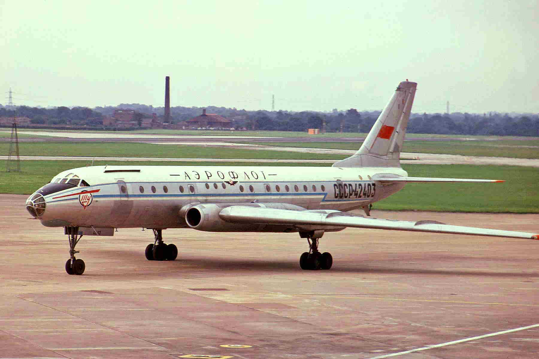 All aircraft should have registrations this size!